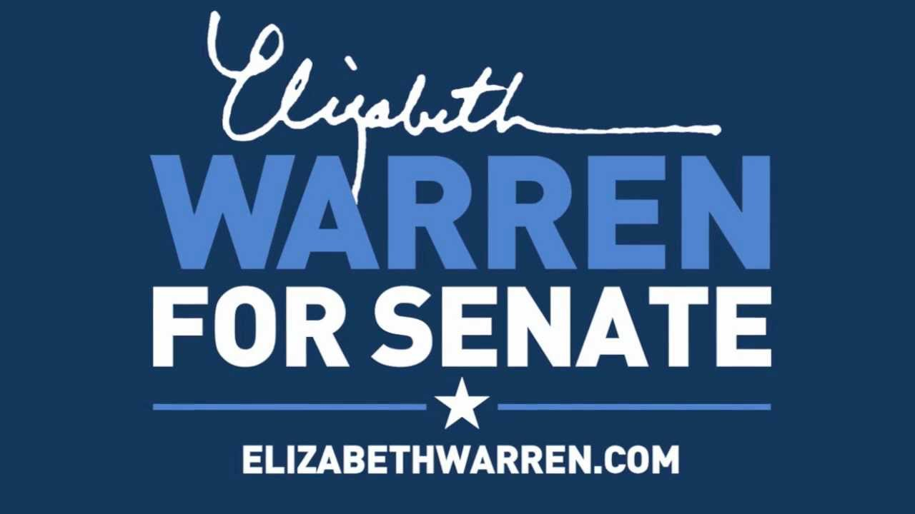 Elizabeth Warren for Senate logo